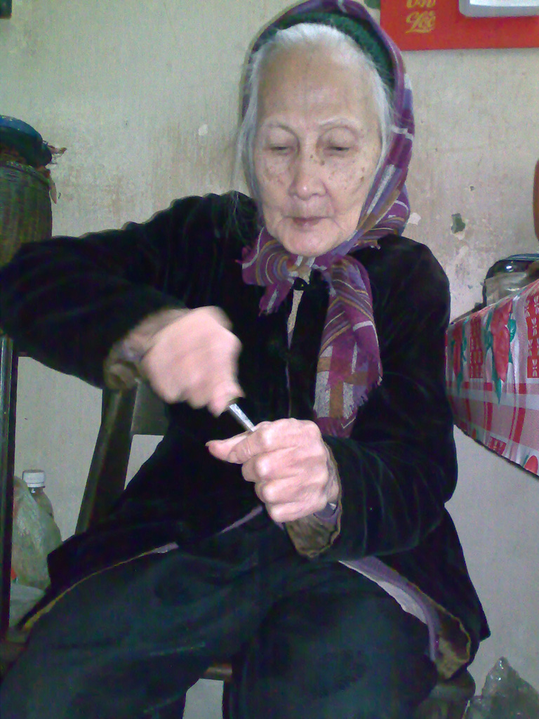 An old-age woman combined areca nut and betel leaf